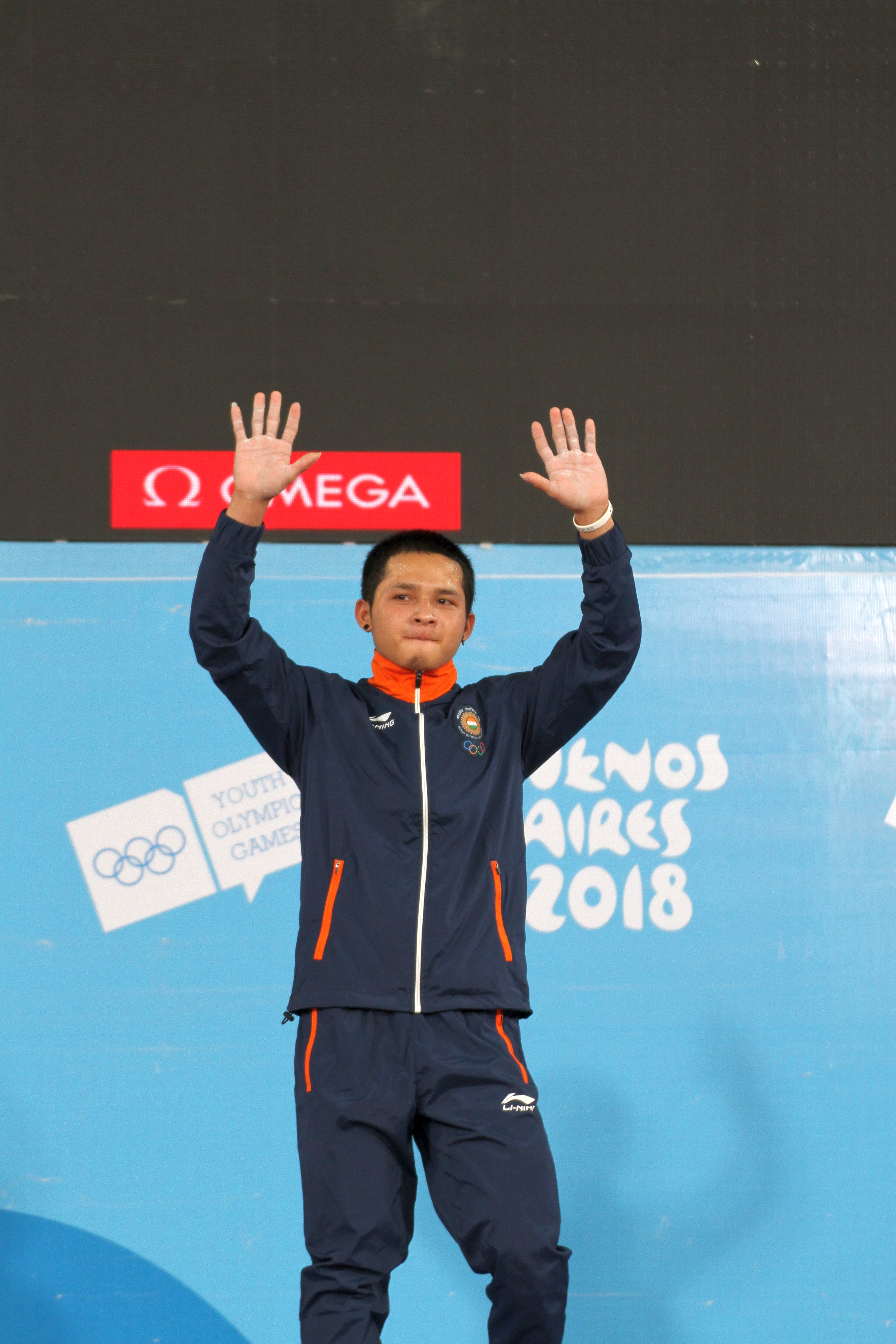 Weightlifting at the 2018 Summer Youth Olympics at 8 October 2018 – Boys' 62 kg